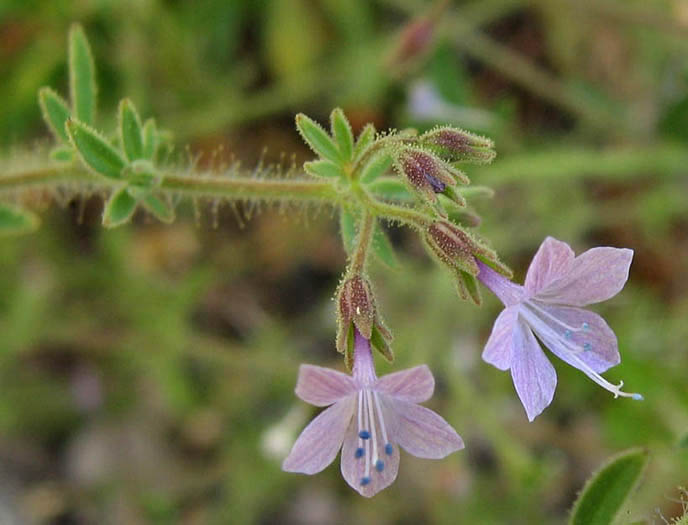 Allophyllum glutinosum. Santa Monica Mountains National Recreation Area, California, USA. Taken at Malibu Creek State Park: Cistern Trail. NPS photo, no copyright.